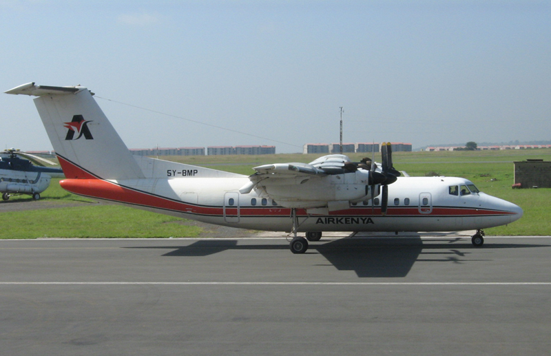 Airkenya De Havilland Dash 7 (5Y-BMP) at Nairobi Wilson Airport Taken on January 7, 20075Y-BMP De Havilland Dash 7